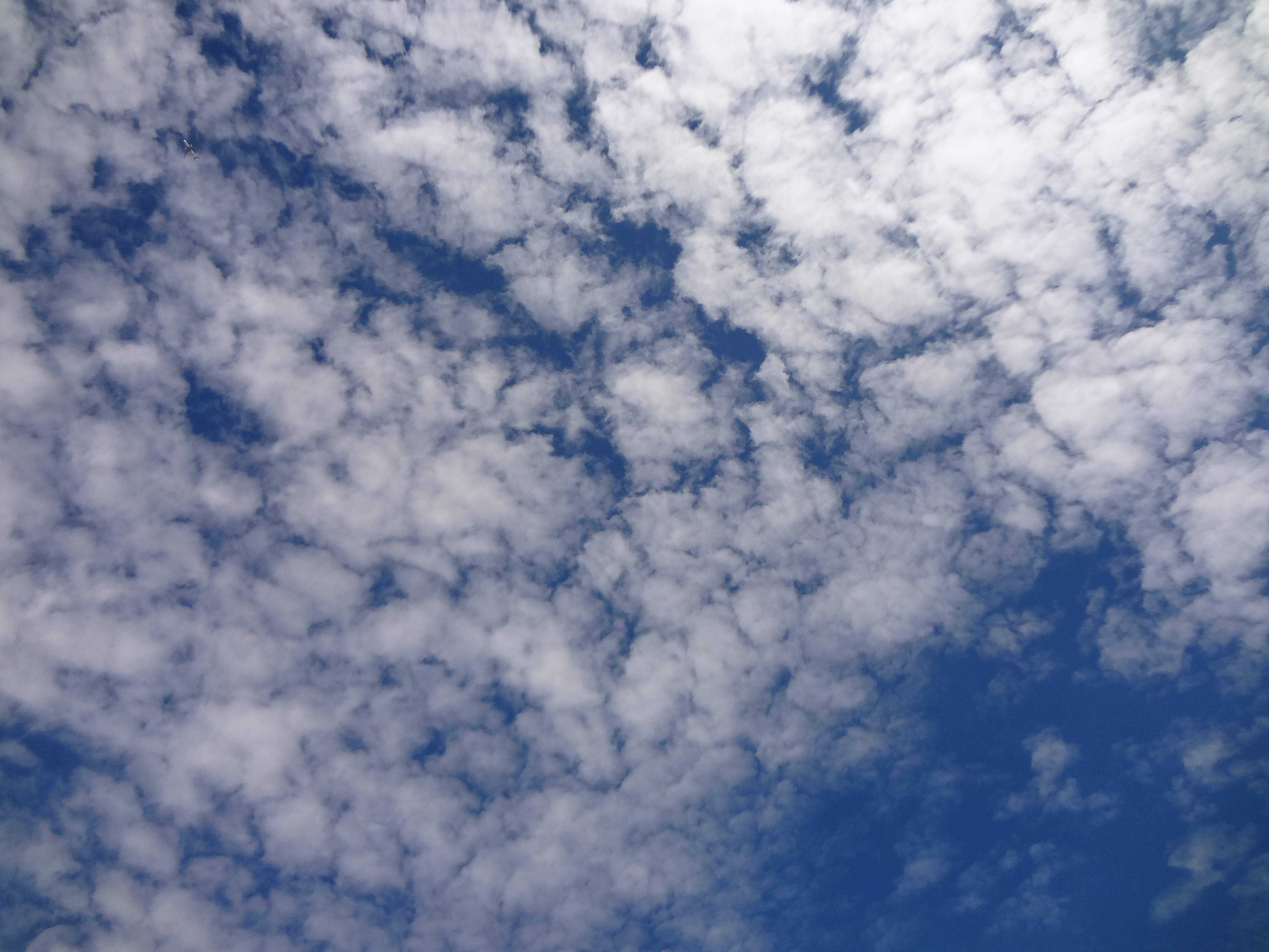 Clouds in the Andes Photography by David Adam Kess Photographed by David Adam Kess Author, David Adam Kess